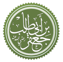 Jafar Bin Abu Taleb Name